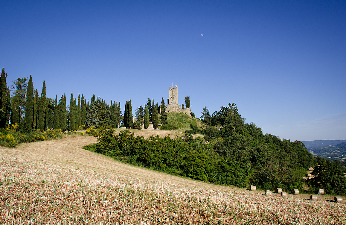 The Castle of Romena in Casentino, Tuscany, Italy.